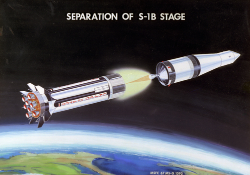 Staging involves dropping off unnecessary parts of the rocket to reduce mass. An artist's conception of the separation of the S1-B stage of a Saturn IB rocket.